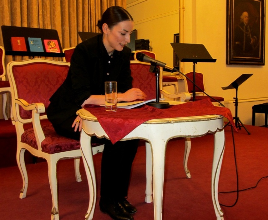 Slovak writer Tamara Heribanova, literary sioree, Vienna